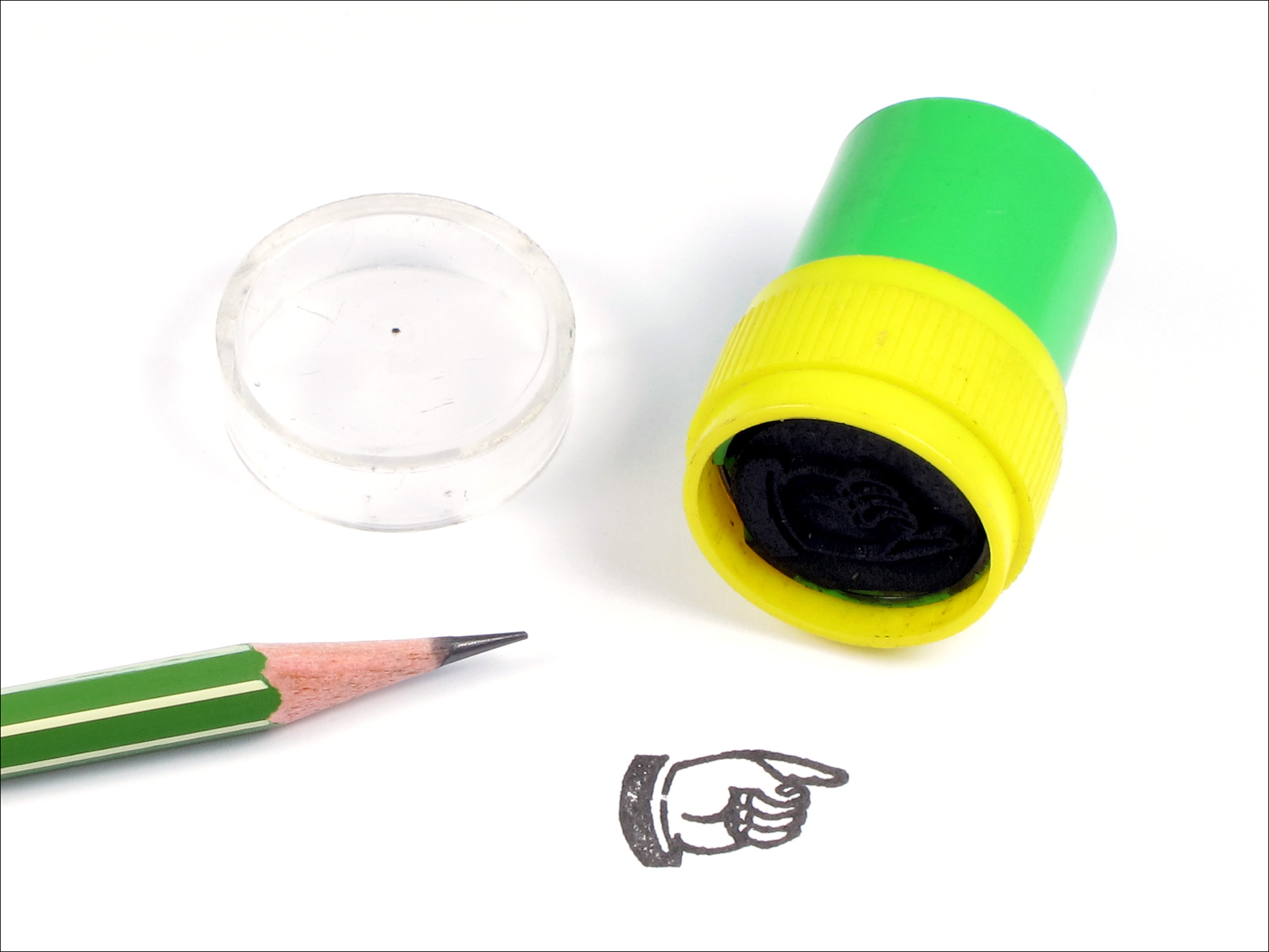 Pre-inked stamp "DingsBums" by Kreuzer (1975)